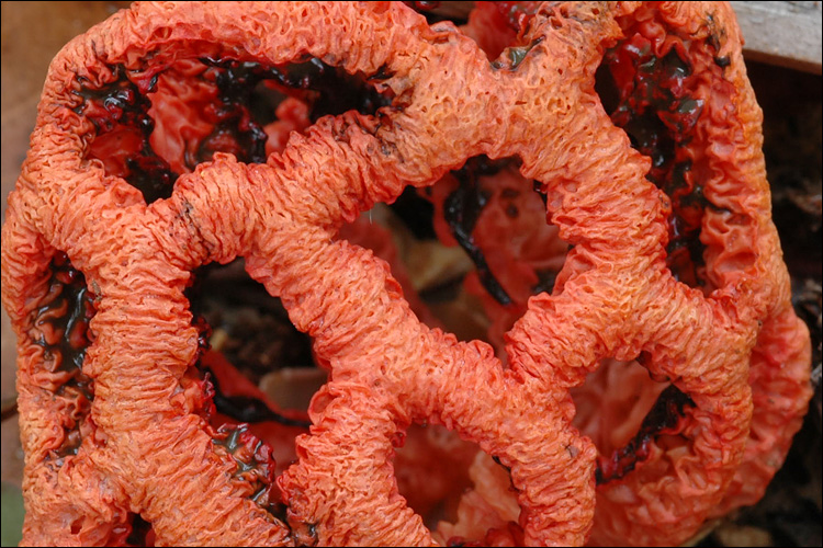 Close-up of the latticed spongy "arms" of the stinkhorn fungus Clathrus ruber. Specimen photographed near Novigrad, Istria, Croatia.